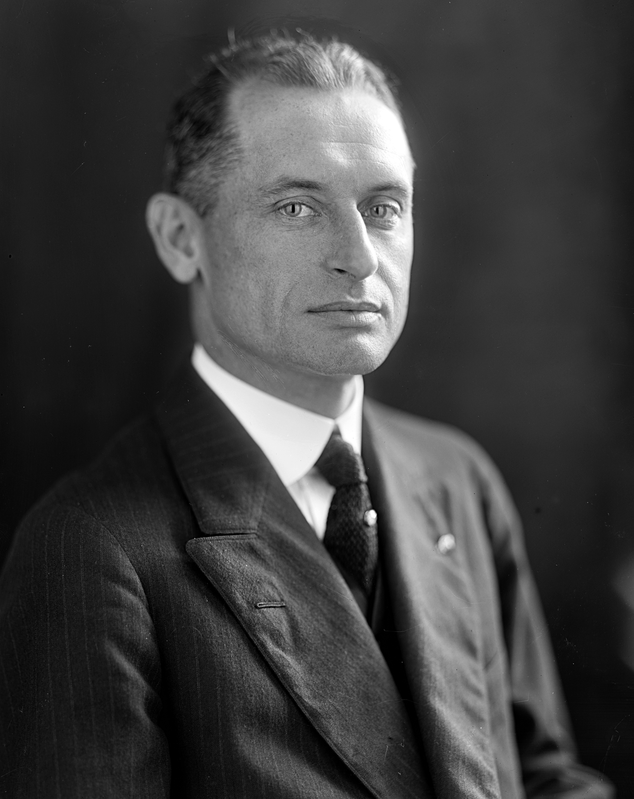 William Henry Hill, US Representative from New York